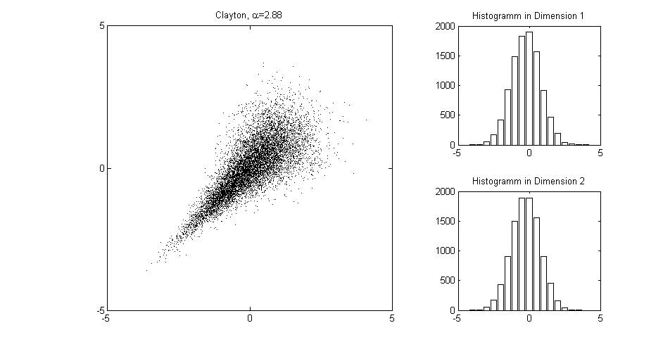 Two-dimensional sample with Clayton dependence and normal marginal distributions.